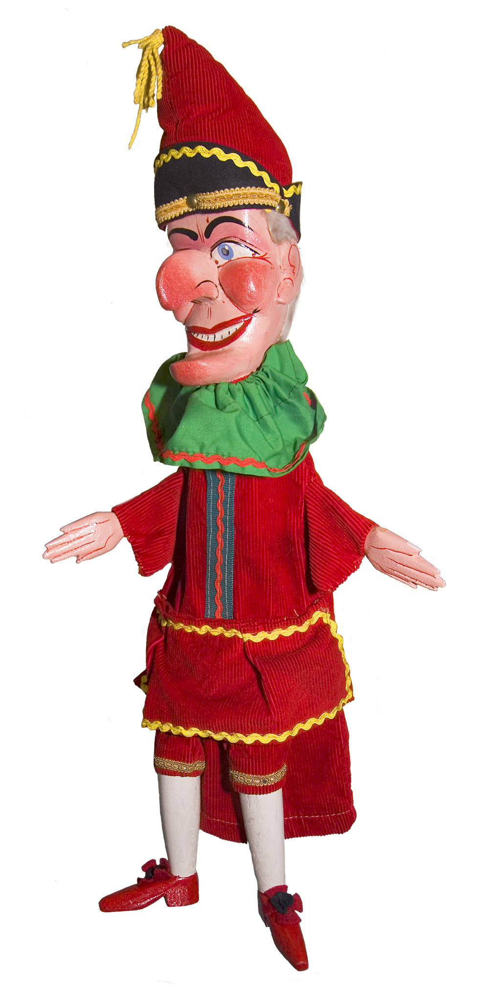 Mr Punch, by Weymouth professor Guy Higgins